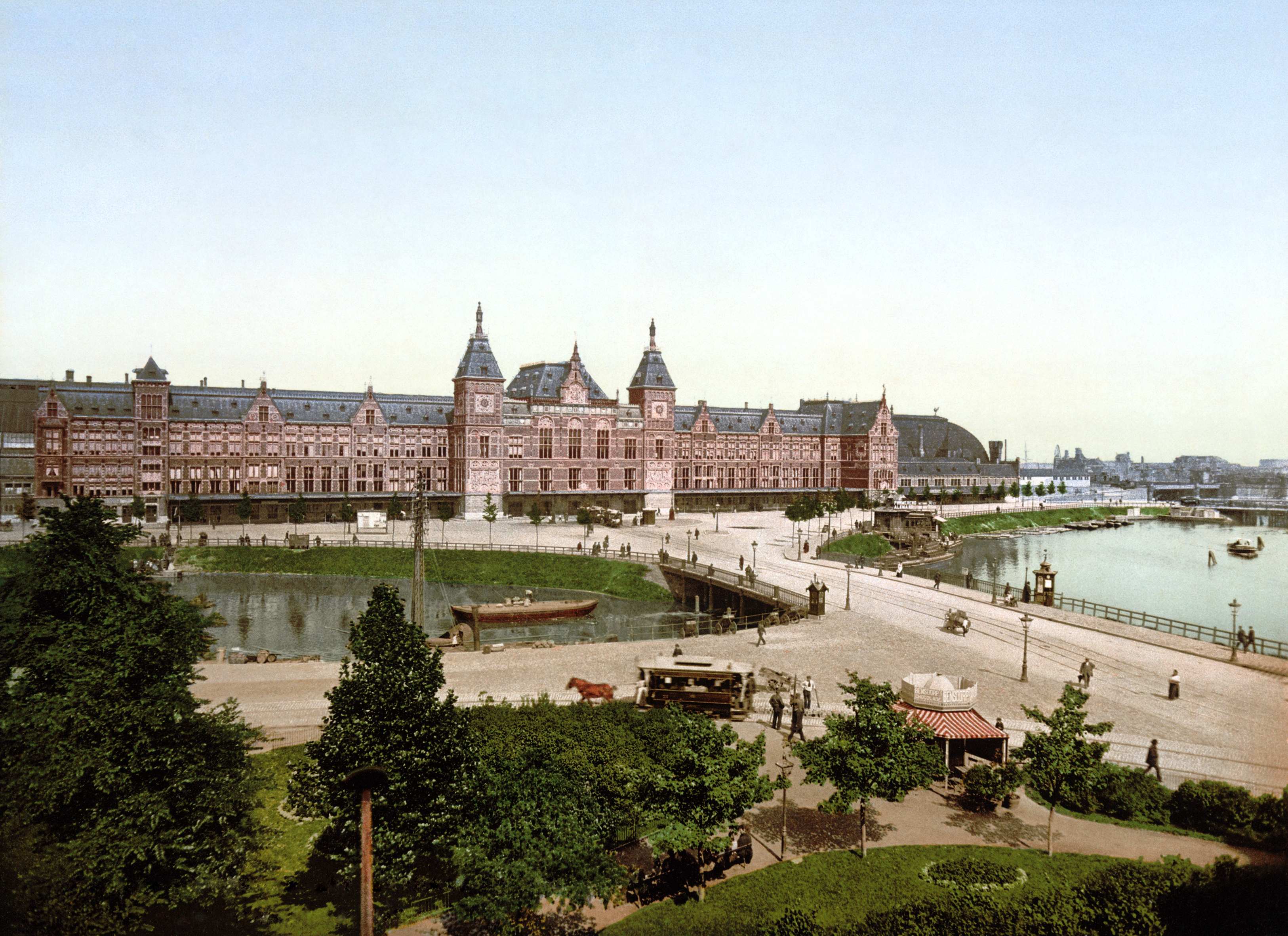 Central train station, Amsterdam, The Netherlands.